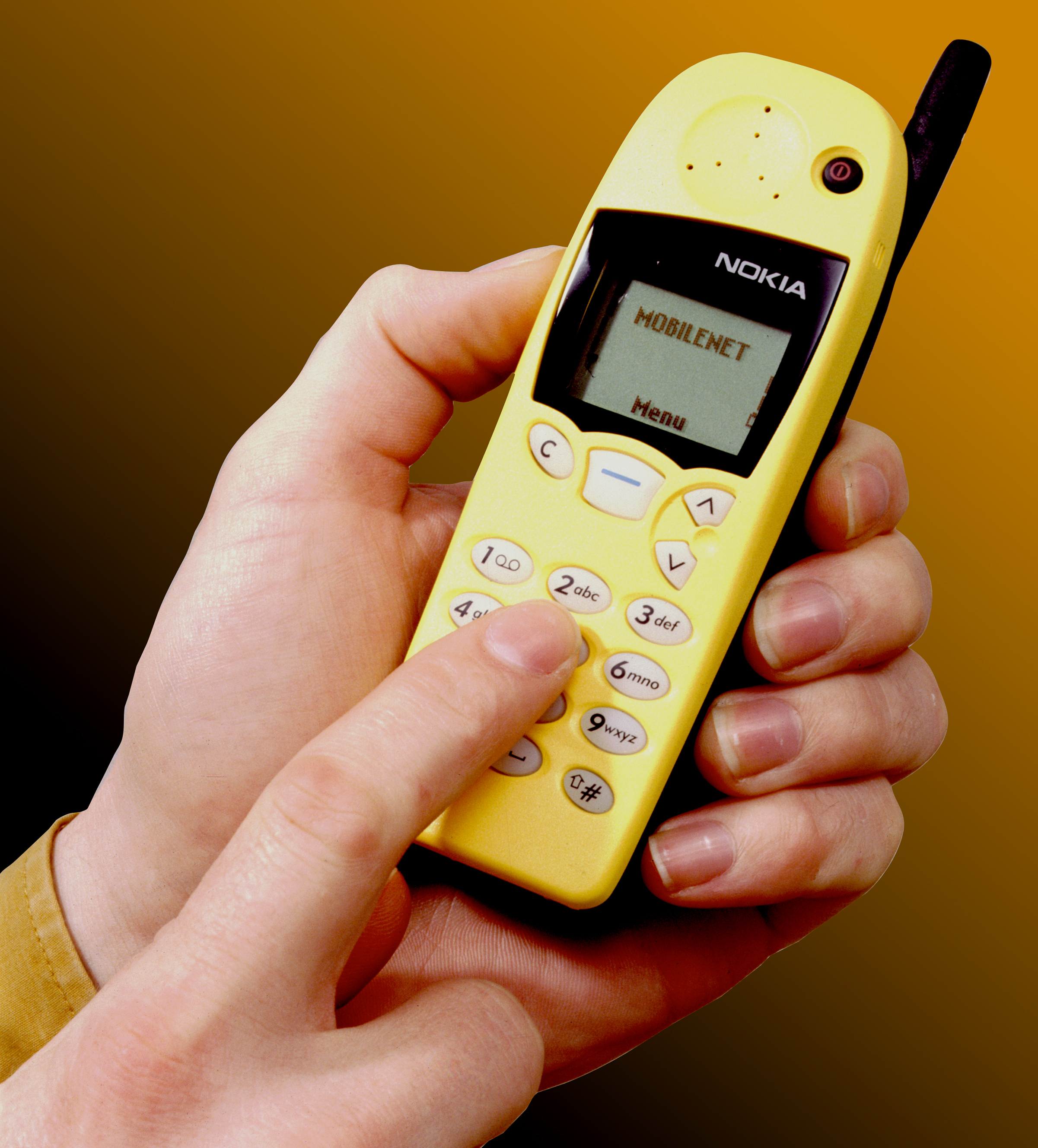 Nokia Mobile phone ' linked to the Telstra network. Photo credit: Tracey Nicholls